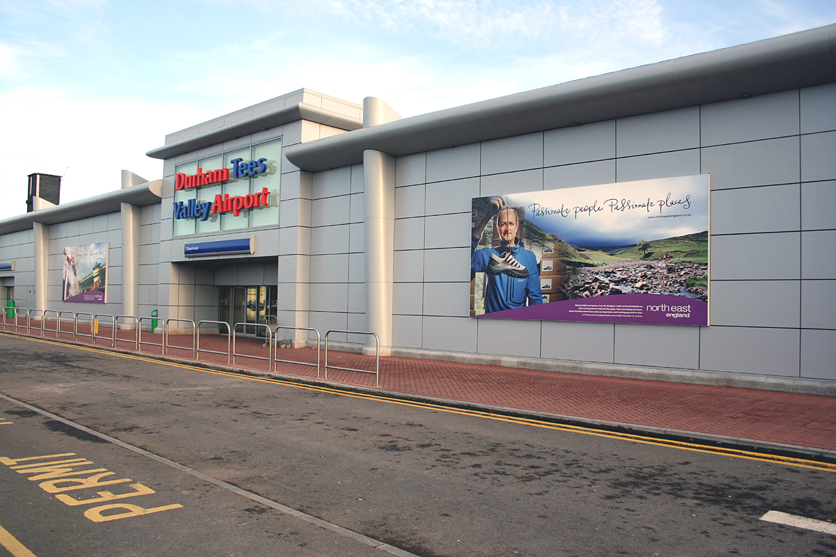 The new terminal front at Durham Tees Valley Airport.